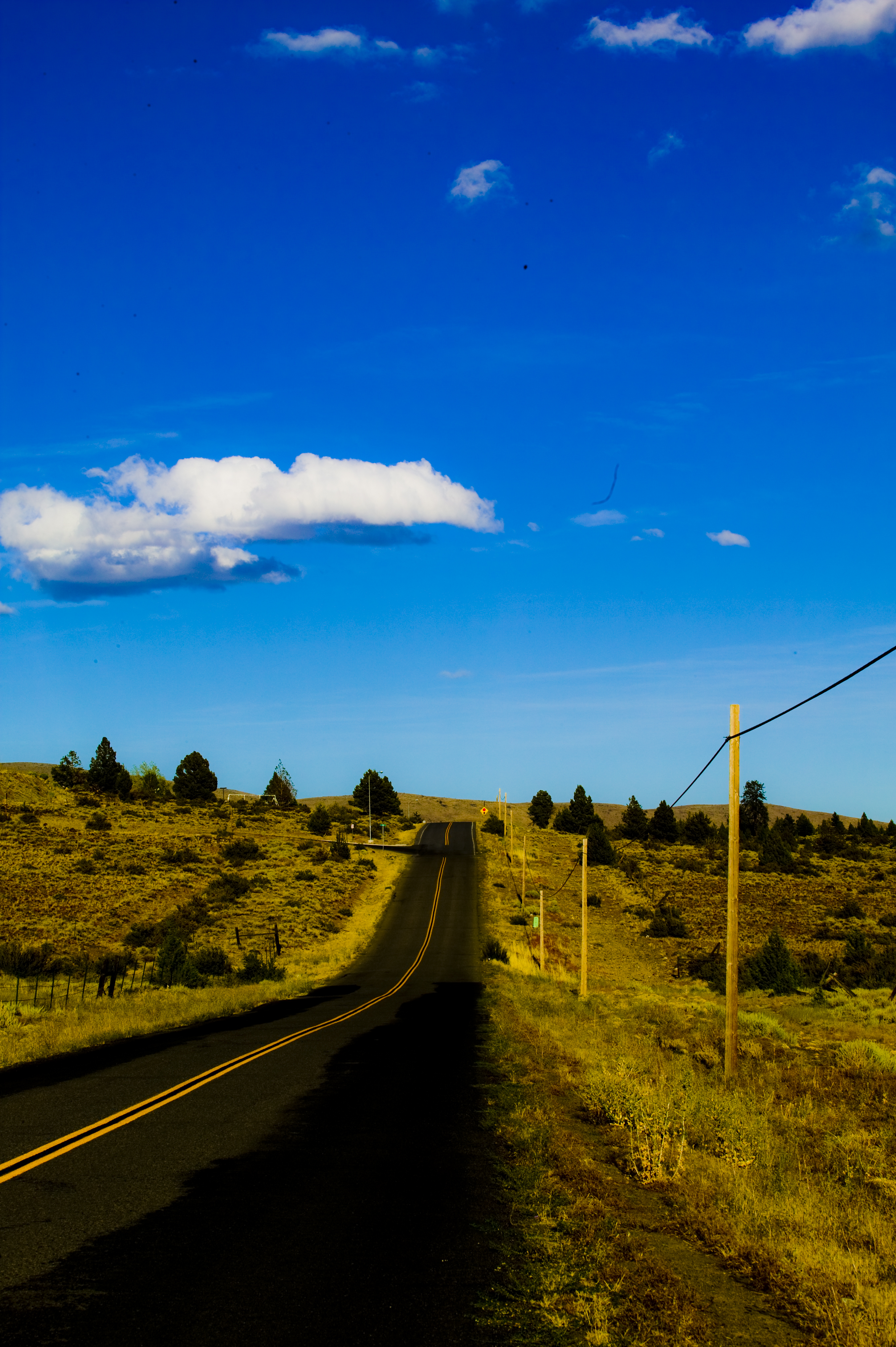 North of Susanville, looking East.